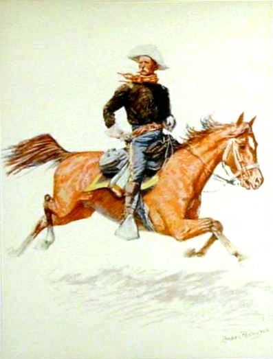 "A Cavalry Officer", 14 7/8"x11" Penn Prints 1956 reproduction of 1901 photolithograph published by R. H. Russell